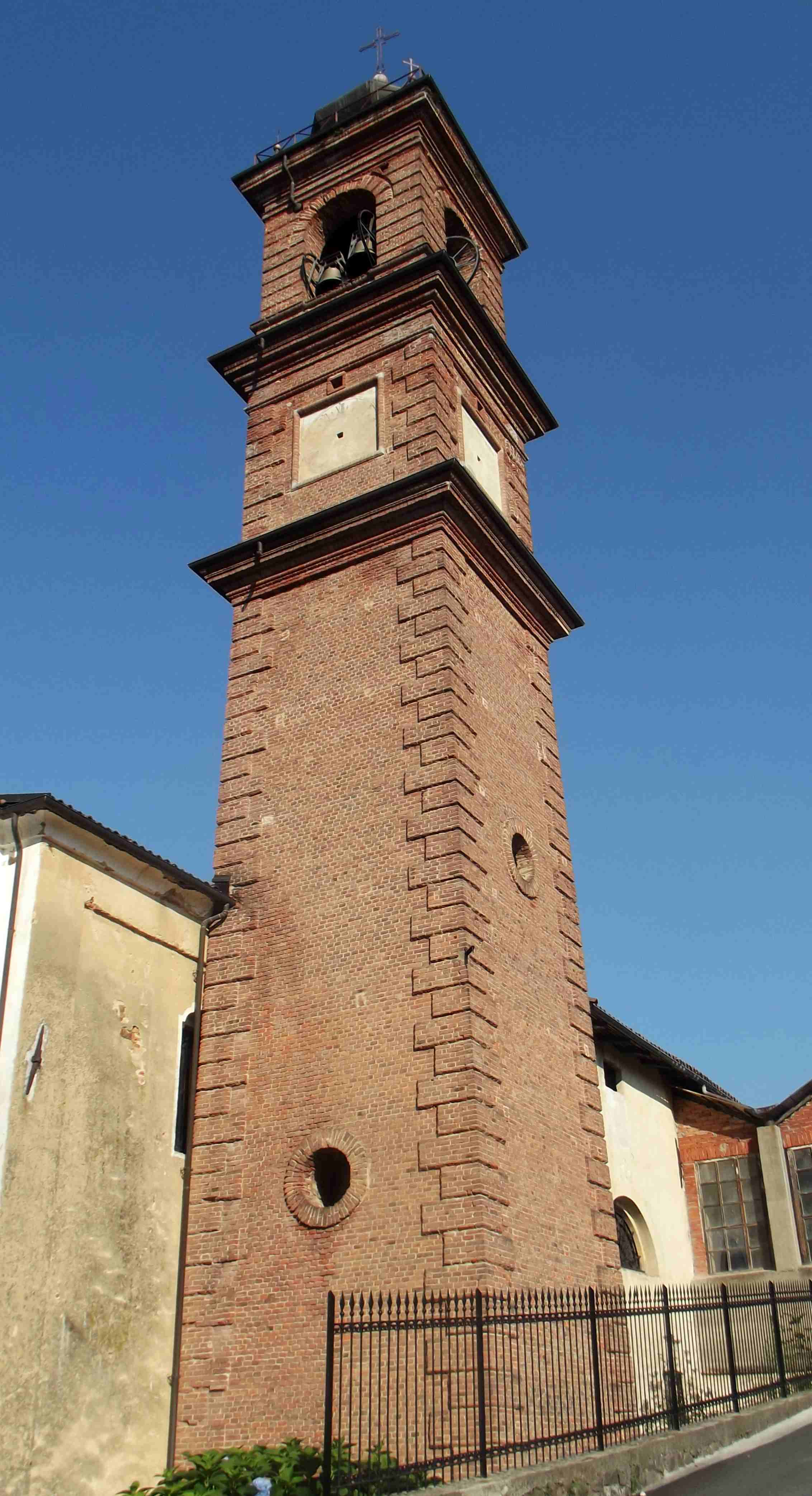 Portula (BI, Italy): bell tower